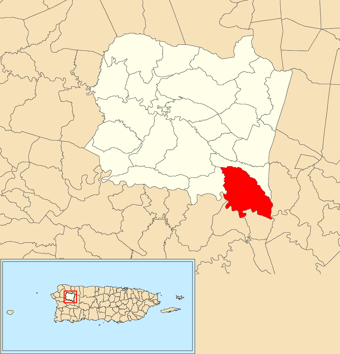 Perchas 2, San Sebastián, Puerto Rico locator map